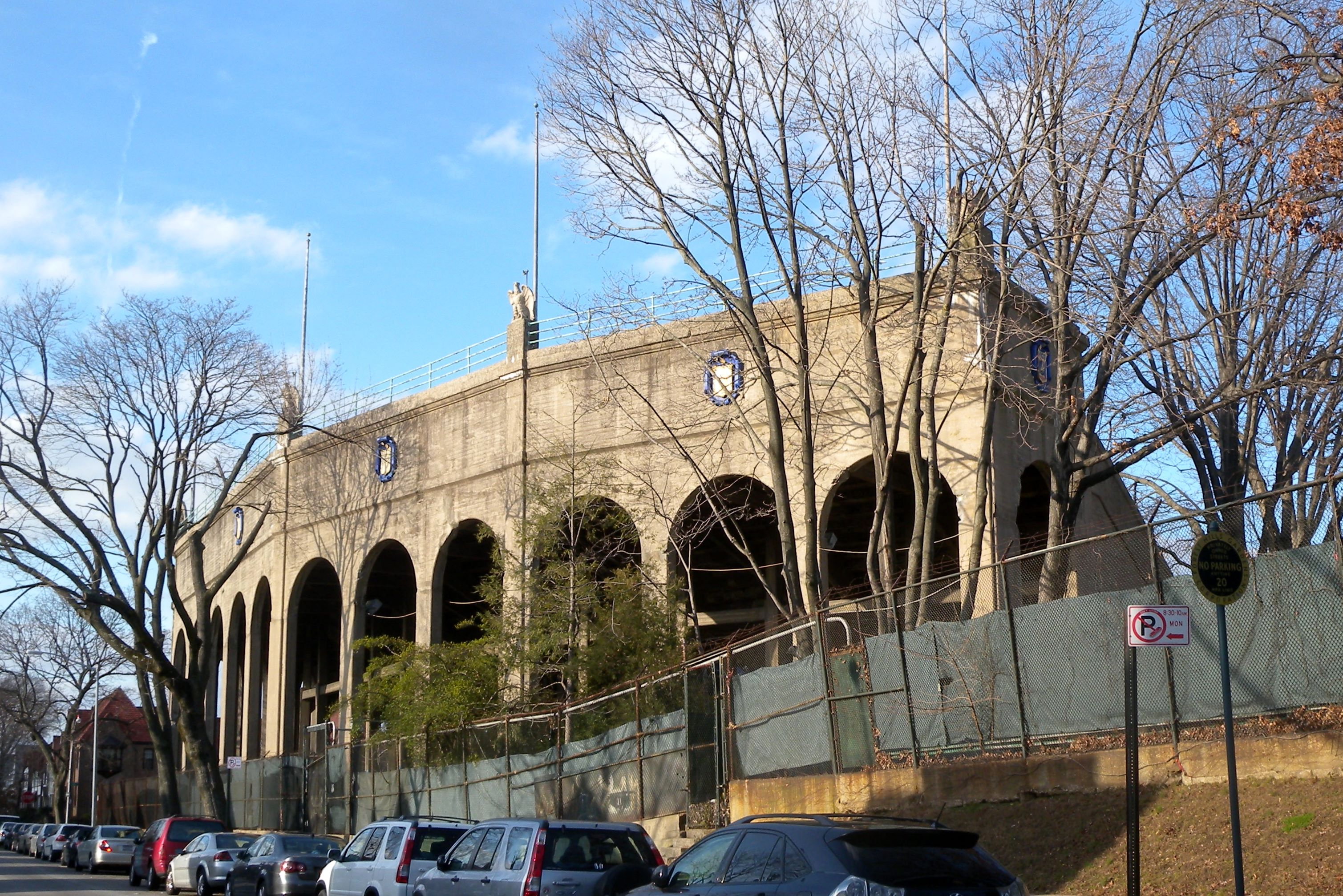 Looking west across Dartmouth Street at stand of FH Stadium on a sunny early afternoon.